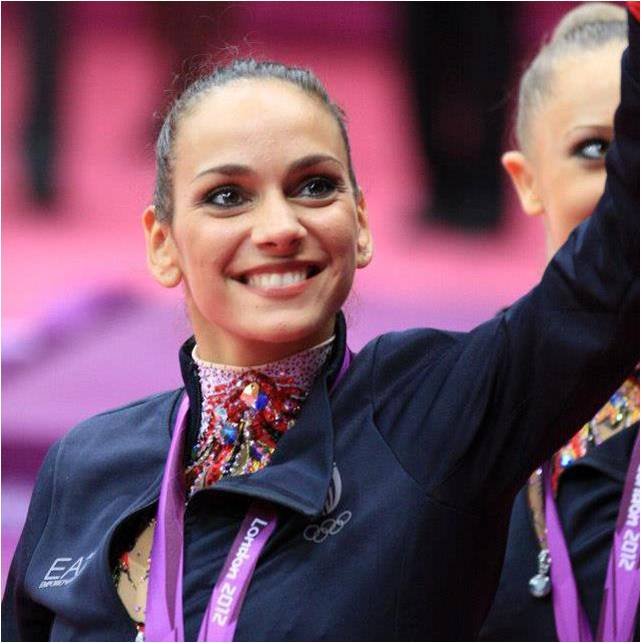 Olimpiadi di londra 2012